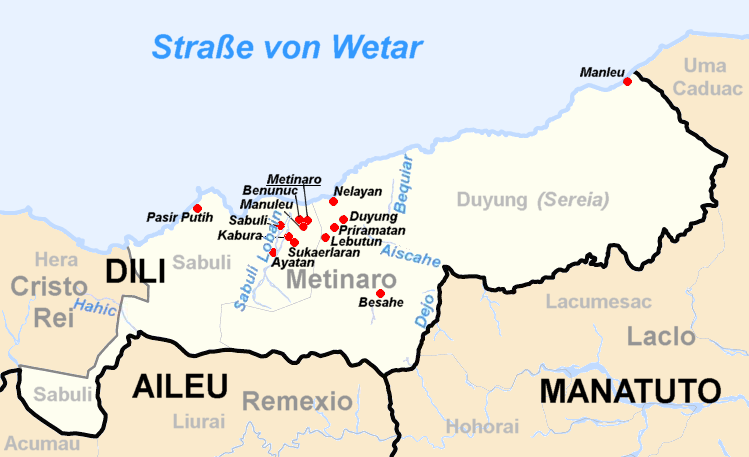 Administrative map of the Metinaro subdistrict/Dili district of East Timor